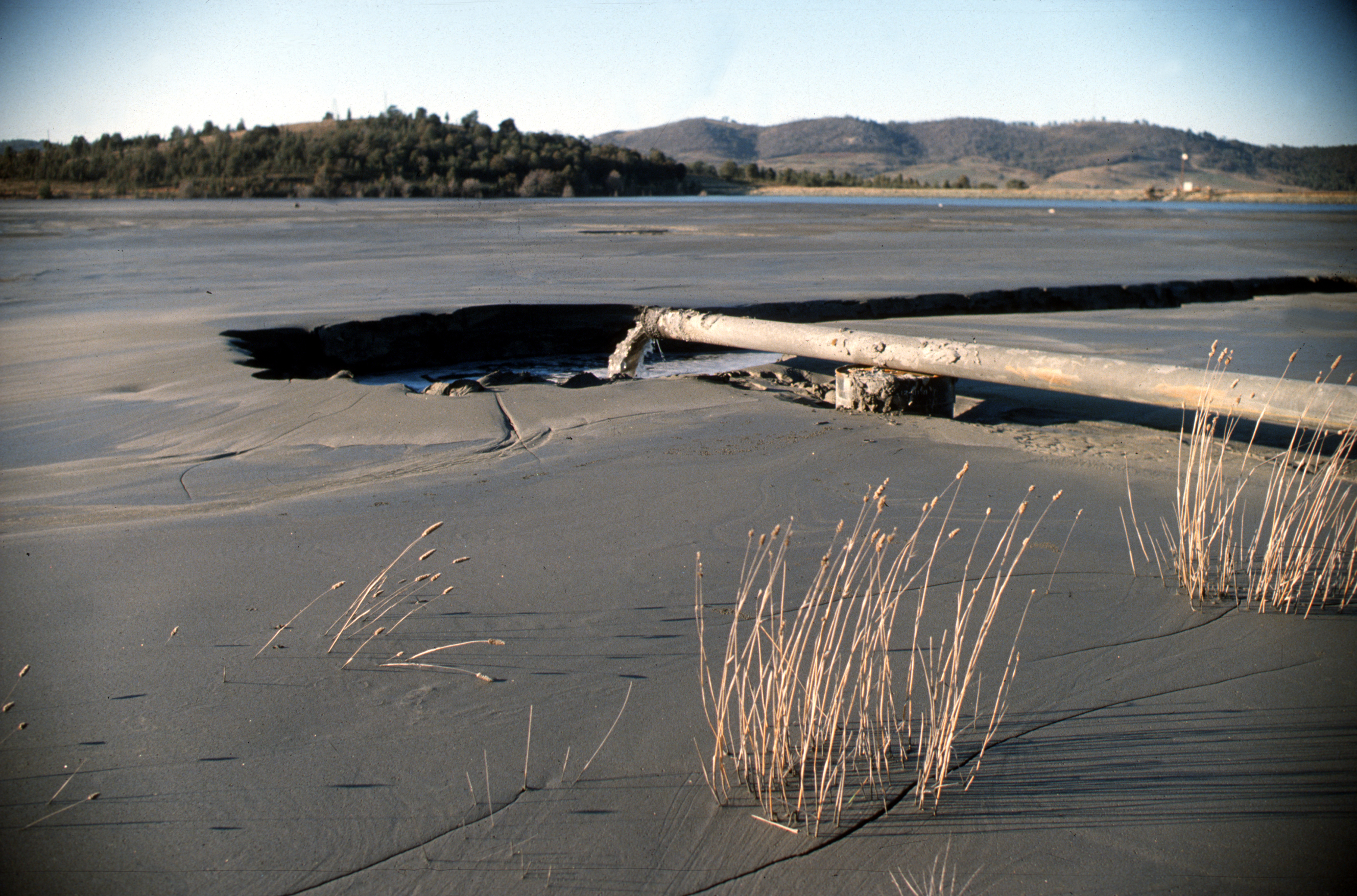 Tailings outflow for the Woodlawn mine. The Woodlawn mine was closed in 1998 and was a base metals mine near Goulburn, NSW.